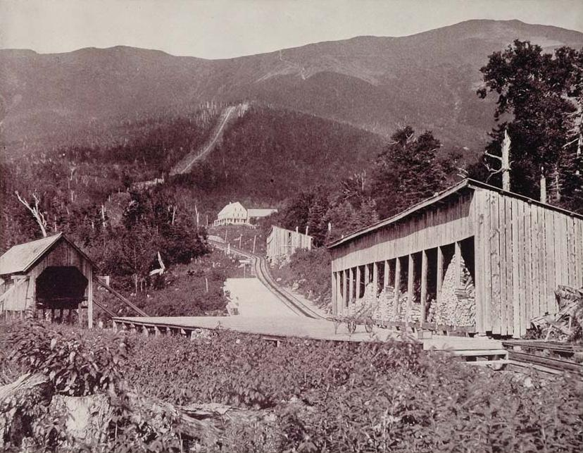 Mount Washington and Cog-wheel Railroad, White Mountains